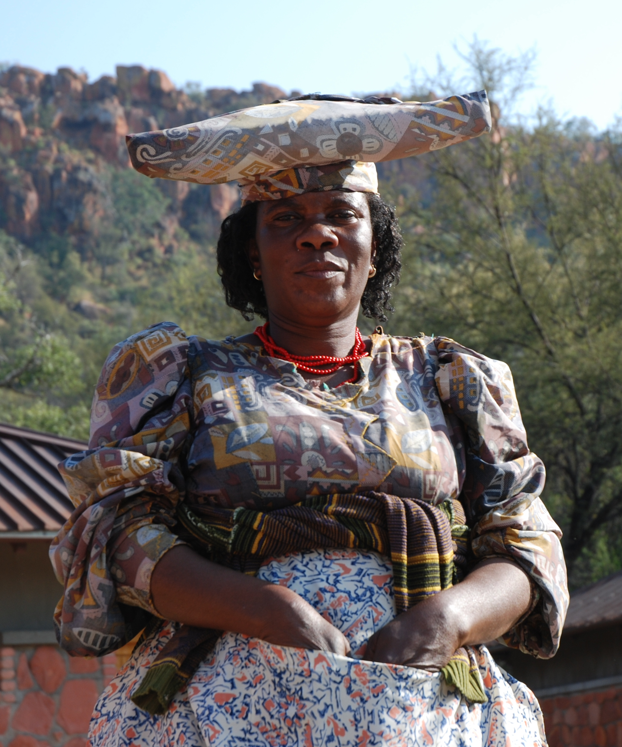 Herero charwoman in Waterberg Resort, Namibia